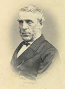 Joseph Lupton (1816-1894) Esq. From Portraits of American Abolitionists (a collection of images of individuals representing a broad spectrum of viewpoints in the slavery debate) Photo. 81.428